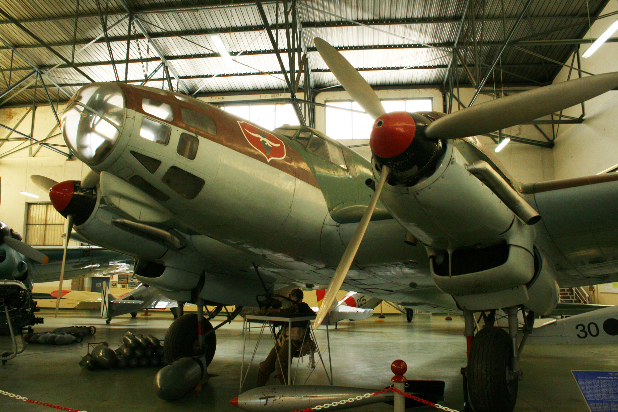 Bombardero Heinkel He-111 E-1 "Pedro" (B.2-82, 25-82). Este avión fue construido en la factoría Allgemeine Tratnsportlatgen Gesellschaft, de Leizpig (Alemania), bajo licencia Heinkel y con número de fábrica 2940. Se incorporó a la Luftwaffe en junio de 1938 y llegó a España a finales de ese año para combatir en las filas del bando nacional con la Legión Condor. Una vez terminada la Guerra Civil Española, permaneció en España pasando a ser propiedad del recién formado Ejército del Aire. Sirvió en los Regimientos de Bombardeo 15 y 14. Fue dado de baja el 12 de diciembre de 1956, permaneciendo en el Aerodromo Militar de Agoncillo (Logroño) hasta julio de 1967, cuando fue trasladado al Museo del Aire de Cuatro Vientos (Madrid, España), donde hoy se exhibe en el Hangar nº1 con la decoración que usó durante la Guerra Civil Española. Heinkel He-111 E-1 "Pedro" Bomber Heinkel He-111 E-1 "Pedro" (B.2-82, 25-82). This aircraft was built in the factory Allgemeine Tratnsportlatgen Gesellschaft in Leipzig (Germany), under licence of Heikel, with fabrication number 2940. It joined the Luftwaffe in June 1938 and came to Spain late this year to fight in the ranks of the national side with the Legion Condor. After the Spanish Civil War, remained in Spain through the property of the newly formed Ejército del Aire (Spanish Air Force). It served in Bomber Regiments 15 and 14. It was decommissioned on December 12th 1956, remaining in the military airfield of Agoncillo (Logroño) until July 1967 when it was transferred to the Museum of the Air of Cuatro Vientos (Madrid, Spain), which today is exhibited in Hangar 1 with the decoration it wore during the Spanish Civil War.